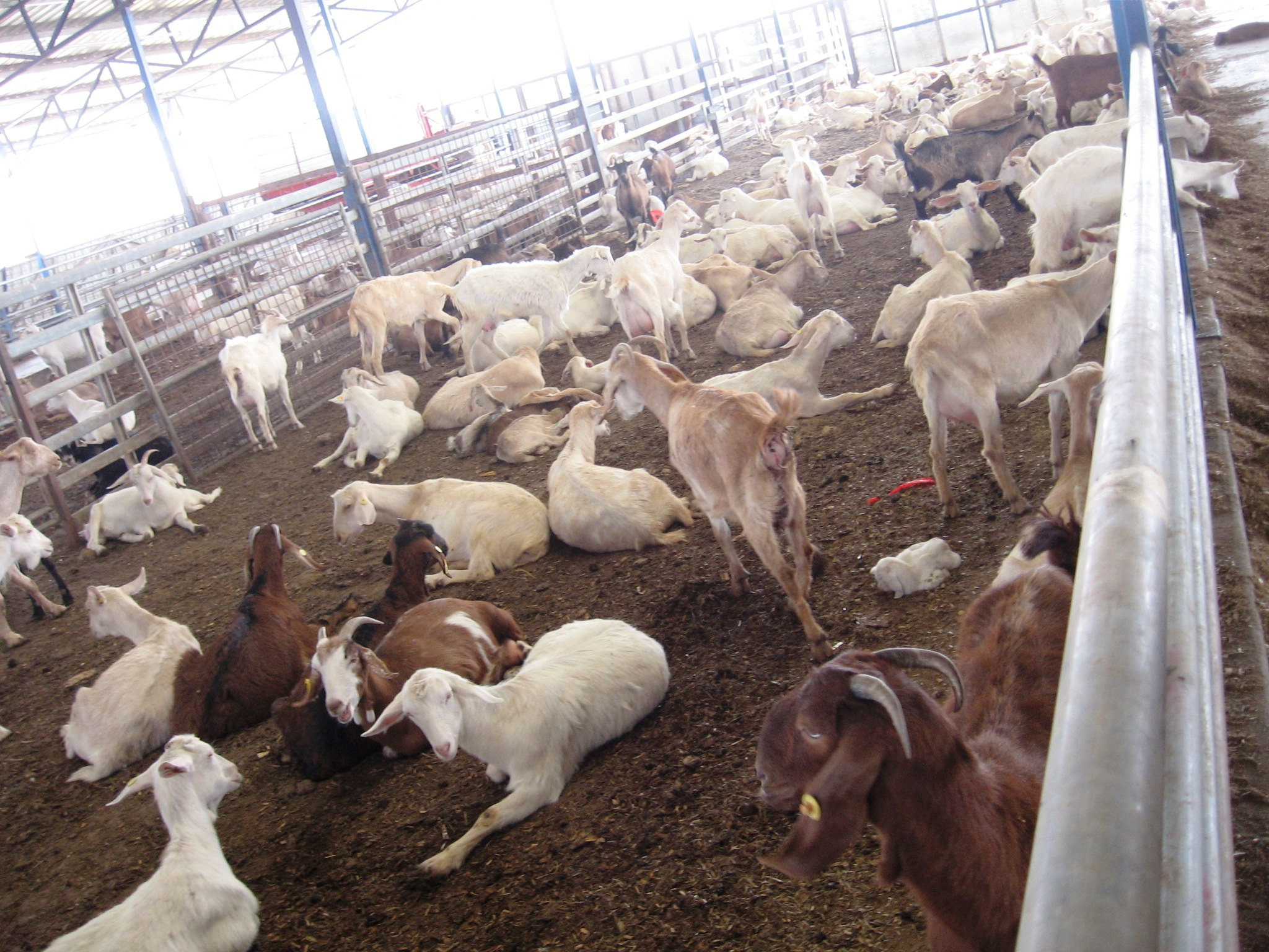 Susya_goat_farm_.jpg